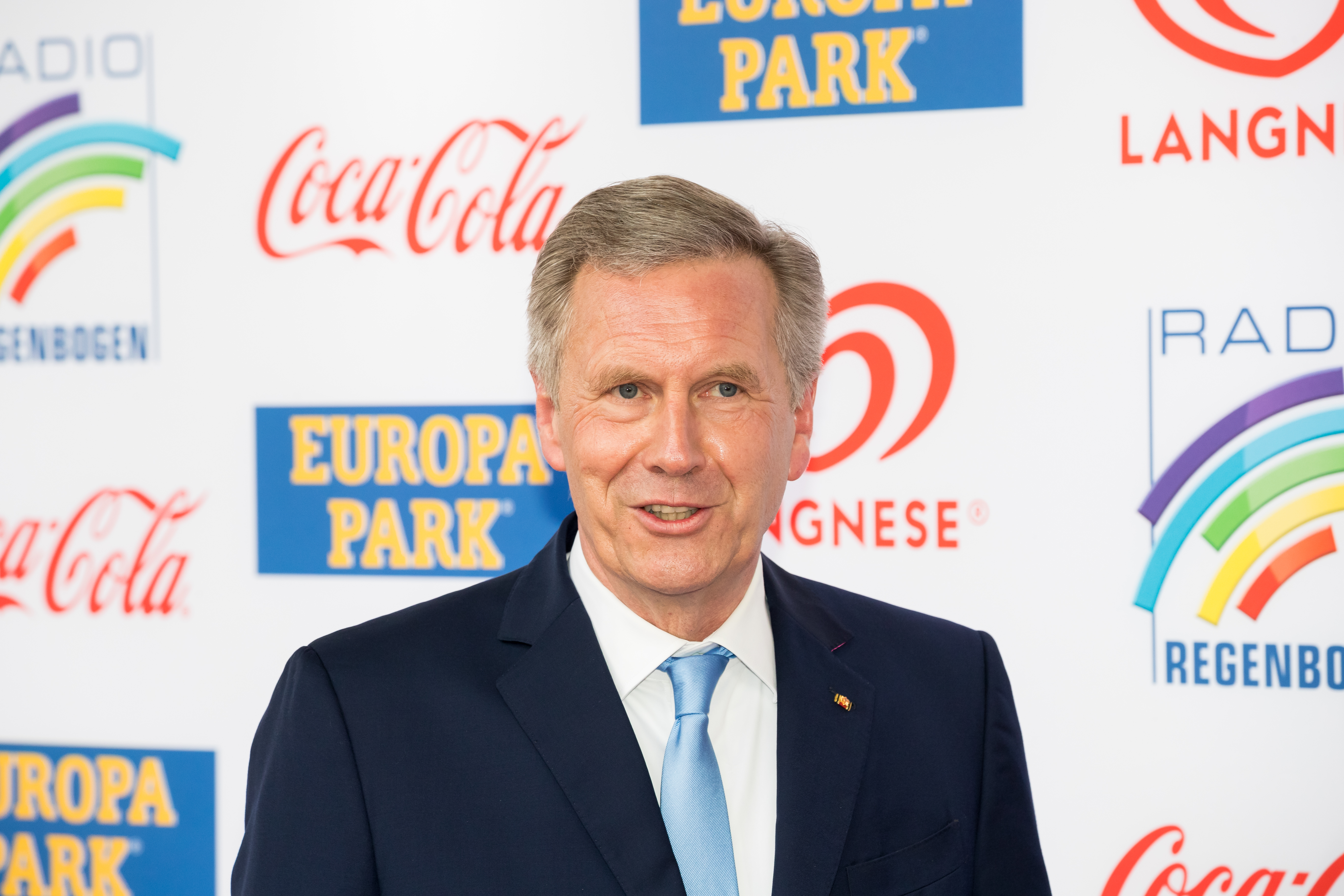 Christian Wulff during Radio Regenbogen Award 2019 at Europapark, Rust, Baden-Württemberg, Germany on 2019-04-12, Photo: Sven Mandel